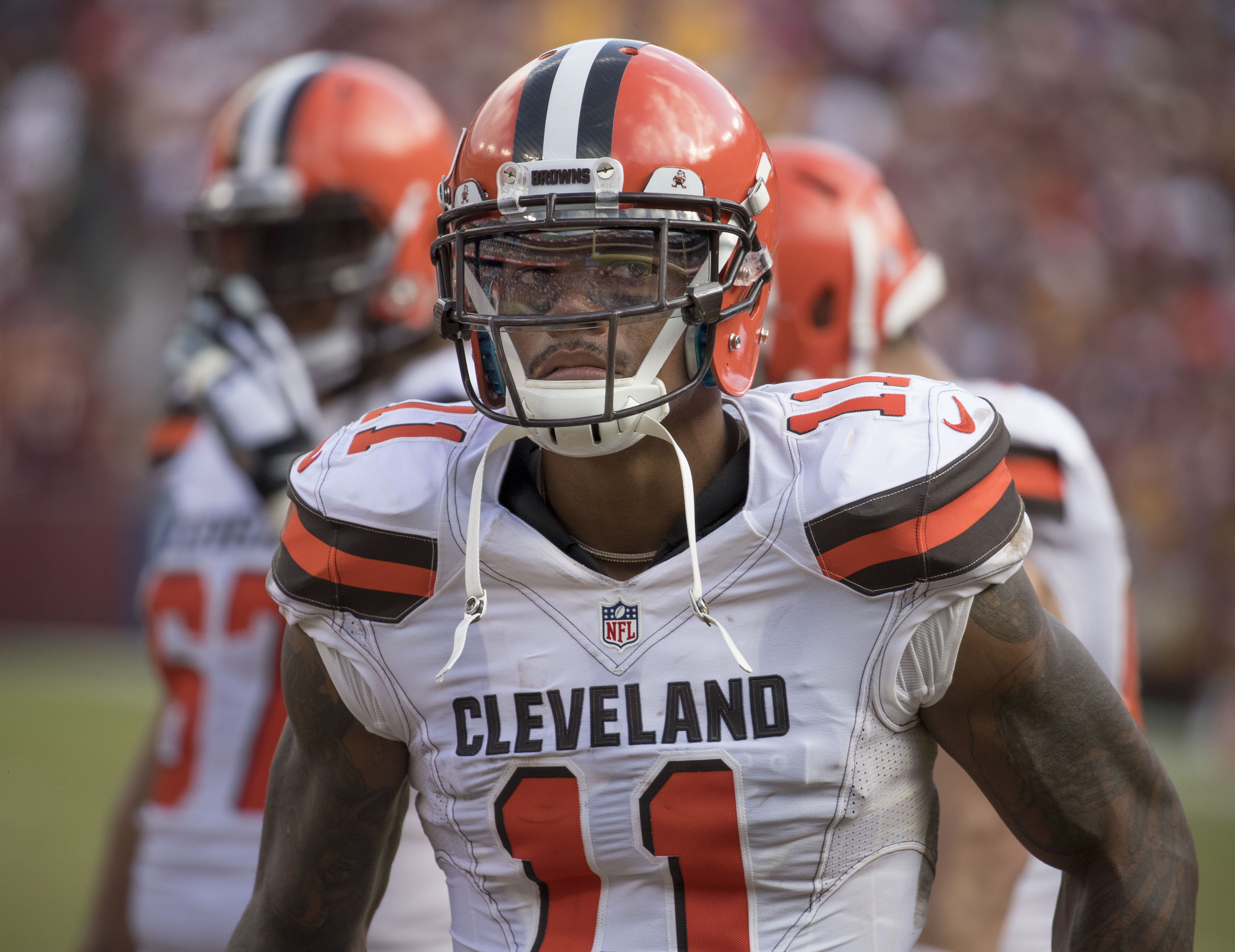 Cleveland Browns wide receiver, Terrelle Pryor, playing against the Washington Redskins on October 2, 2016